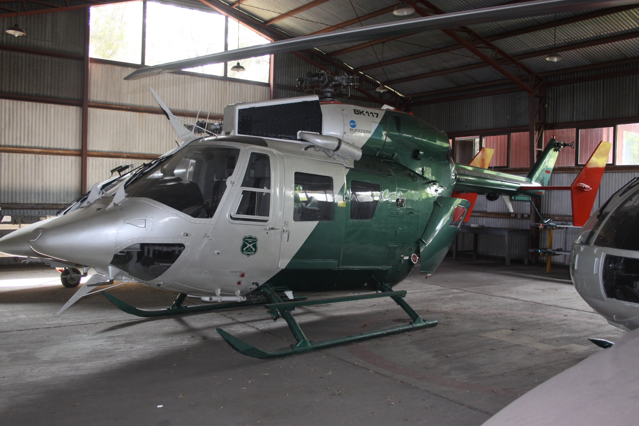 At Tobalaba